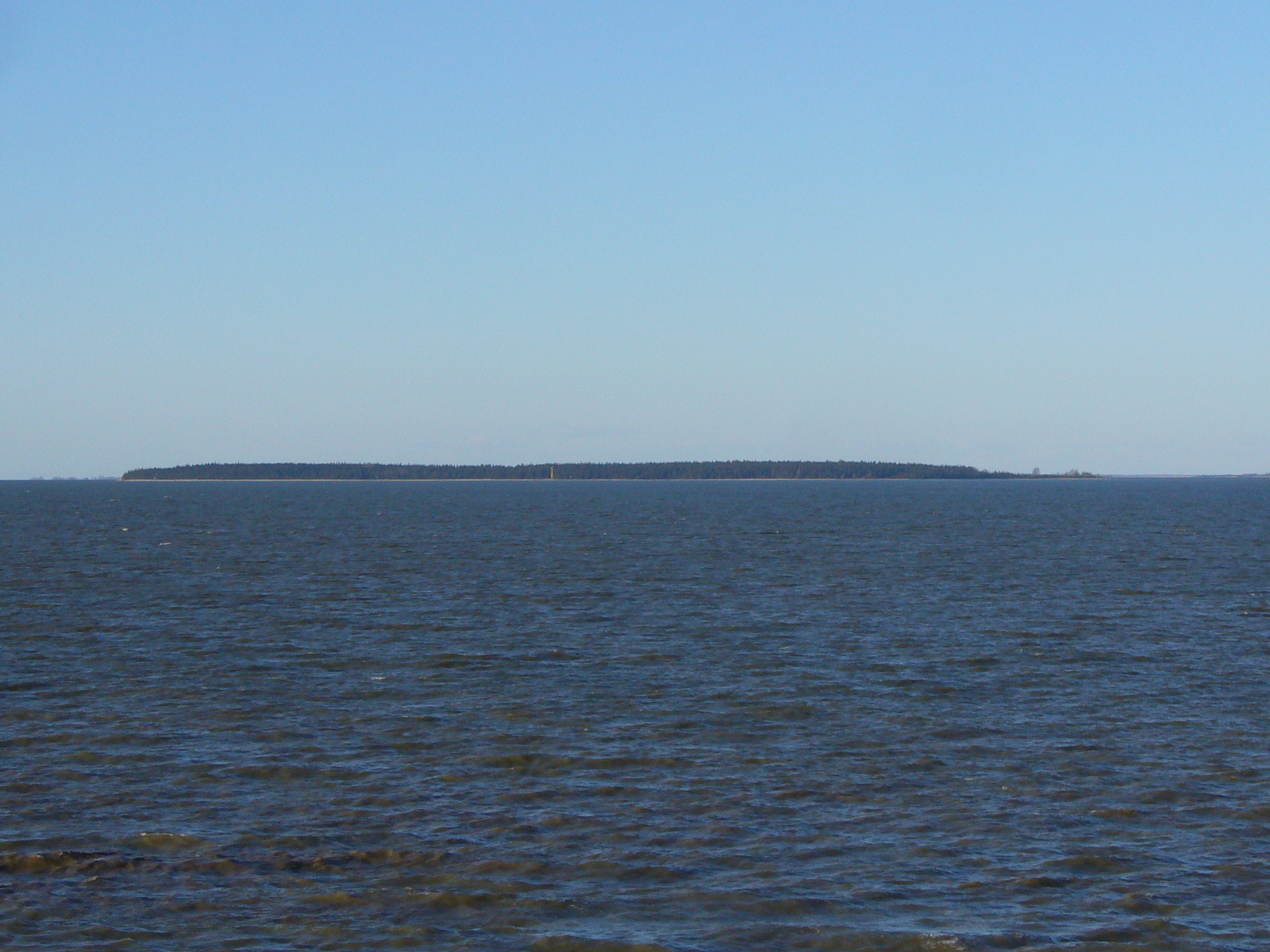 Kesselaid (a small island). View from Kuivastu harbor. Muhu parish, Saare county, Estonia.